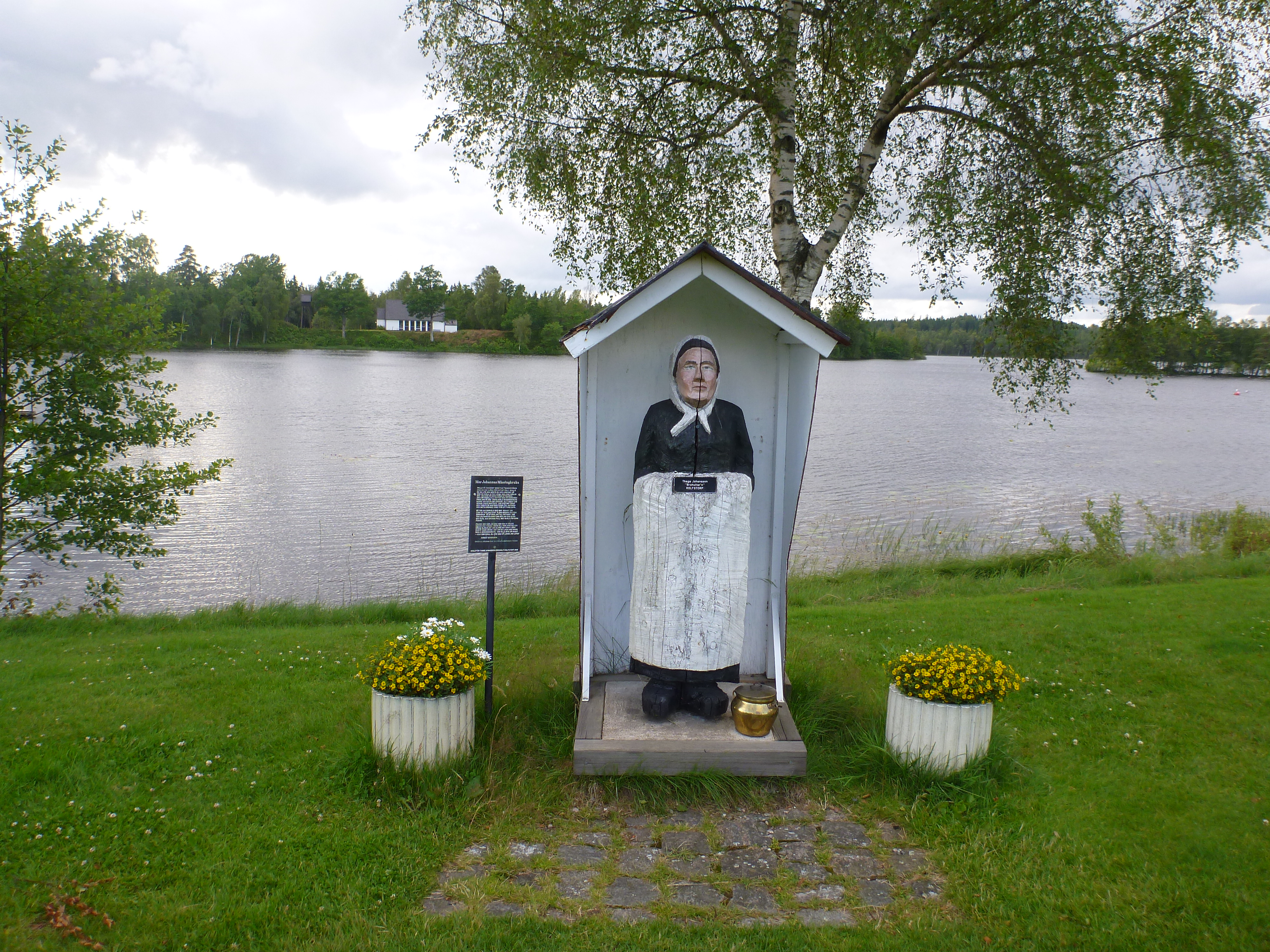 The wooden sculpture "Mor Johannas Mässingkruka" from "Thage Johannsson Brohult" from the jear 1956 in the village Fegen in Hallands län in Schweden